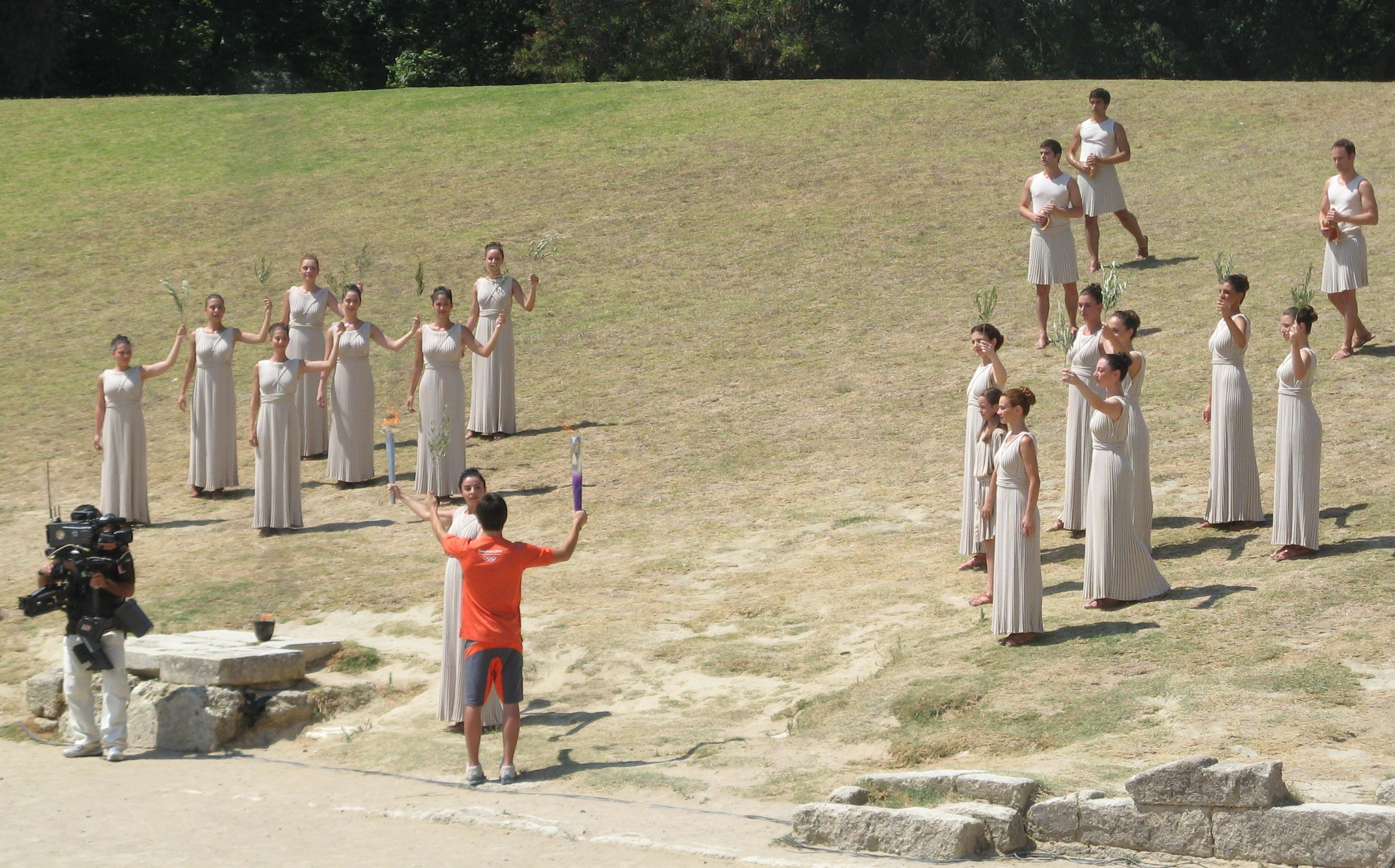 Ignition of the olympic torch-relay torch at the olympic torch ignition ceremony for the 2010 Summer Youth Olympics; Olympia, Greece